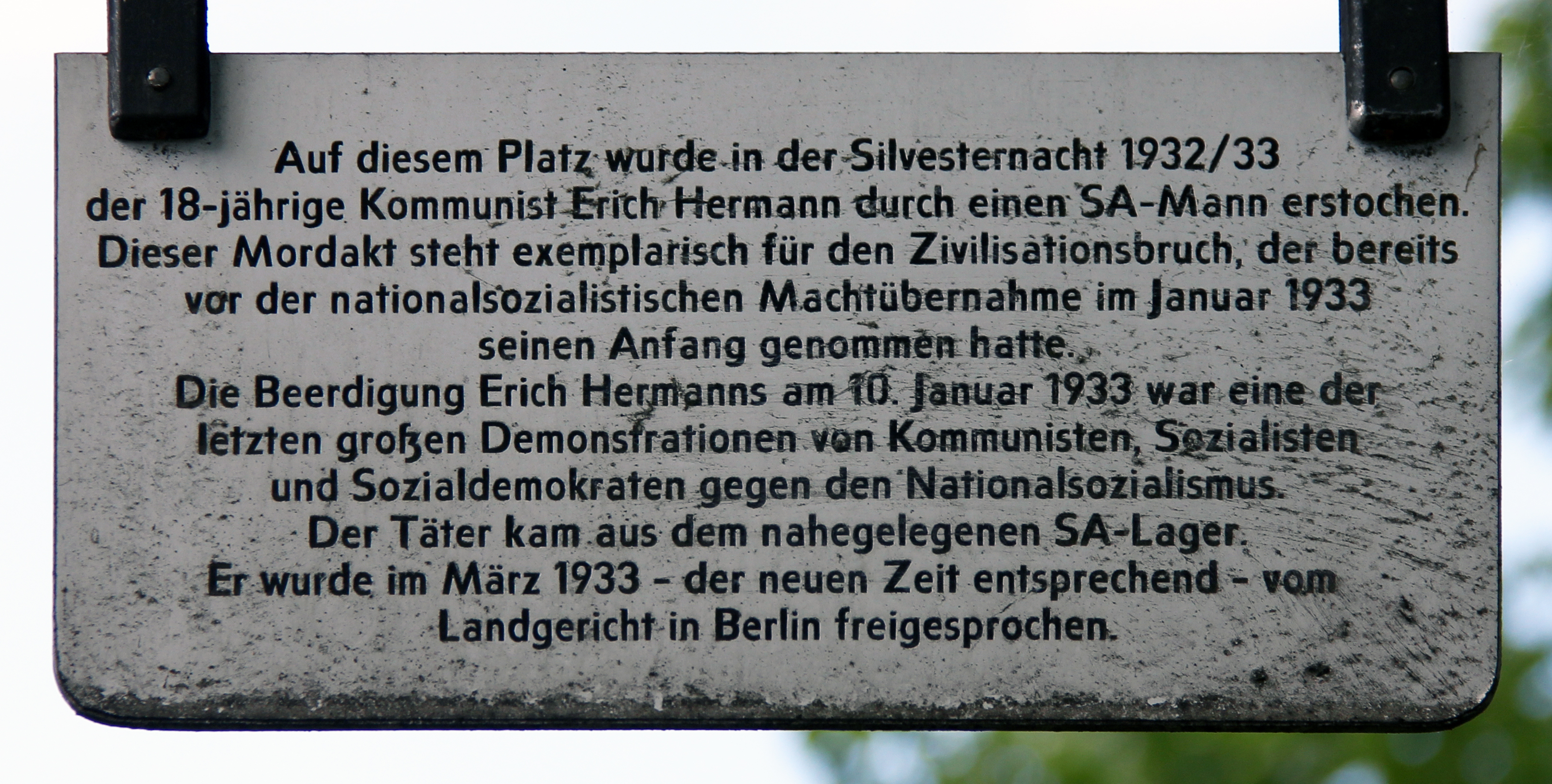 Memorial plaque, Erich Hermann, Erich-Hermann-Platz, Berlin-Lichtenrade, Germany